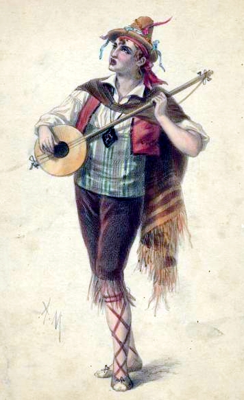 Belgian tenor José Dupuis (1833-1900) as Piquillo in Offenbach's La Périchole.